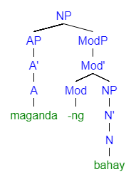 Simplified syntax tree adapted from Scontras (2012) example 9a1, made with